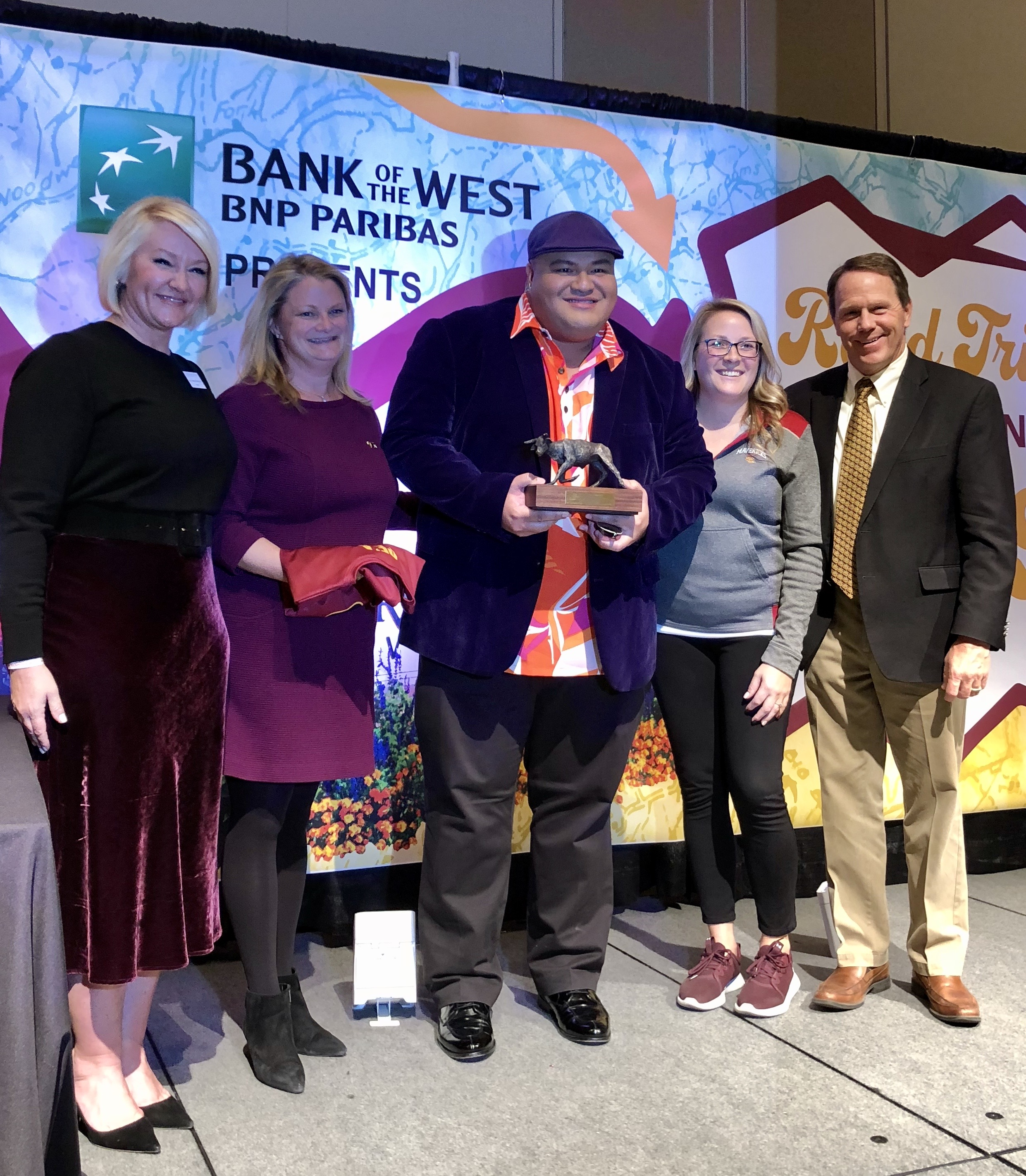 Pe'a accepts the prestigious distinguished alumni award from Colorado Mesa University in 2019.